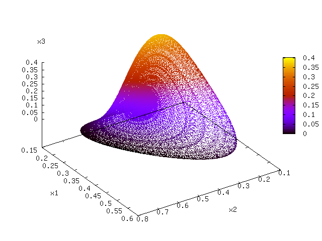 A competitive Lotka-Volterra system plotted in 3D with the fourth dimension represented in color.